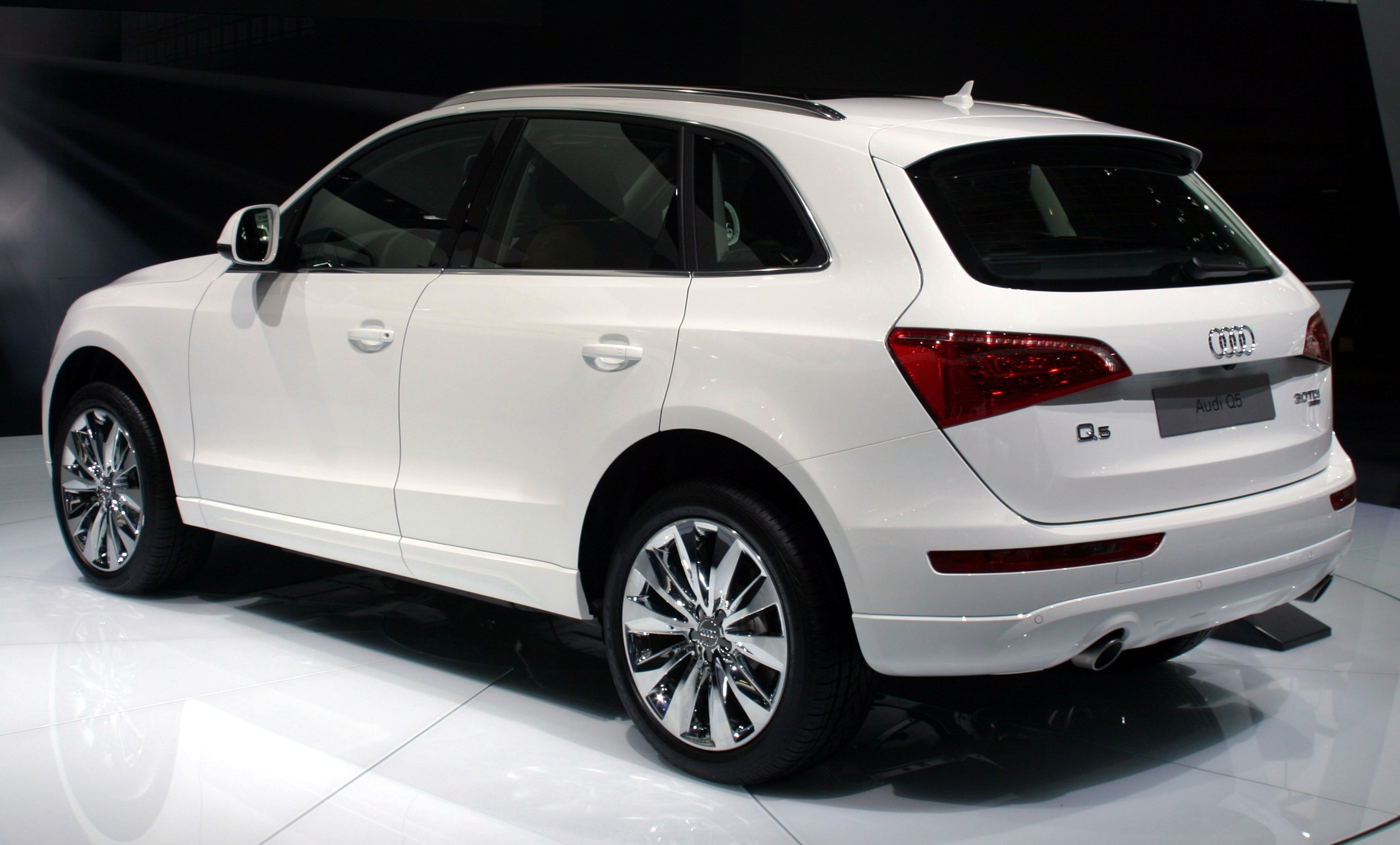 Audi Q5 at Moscow international autoshow, 27 august 2008